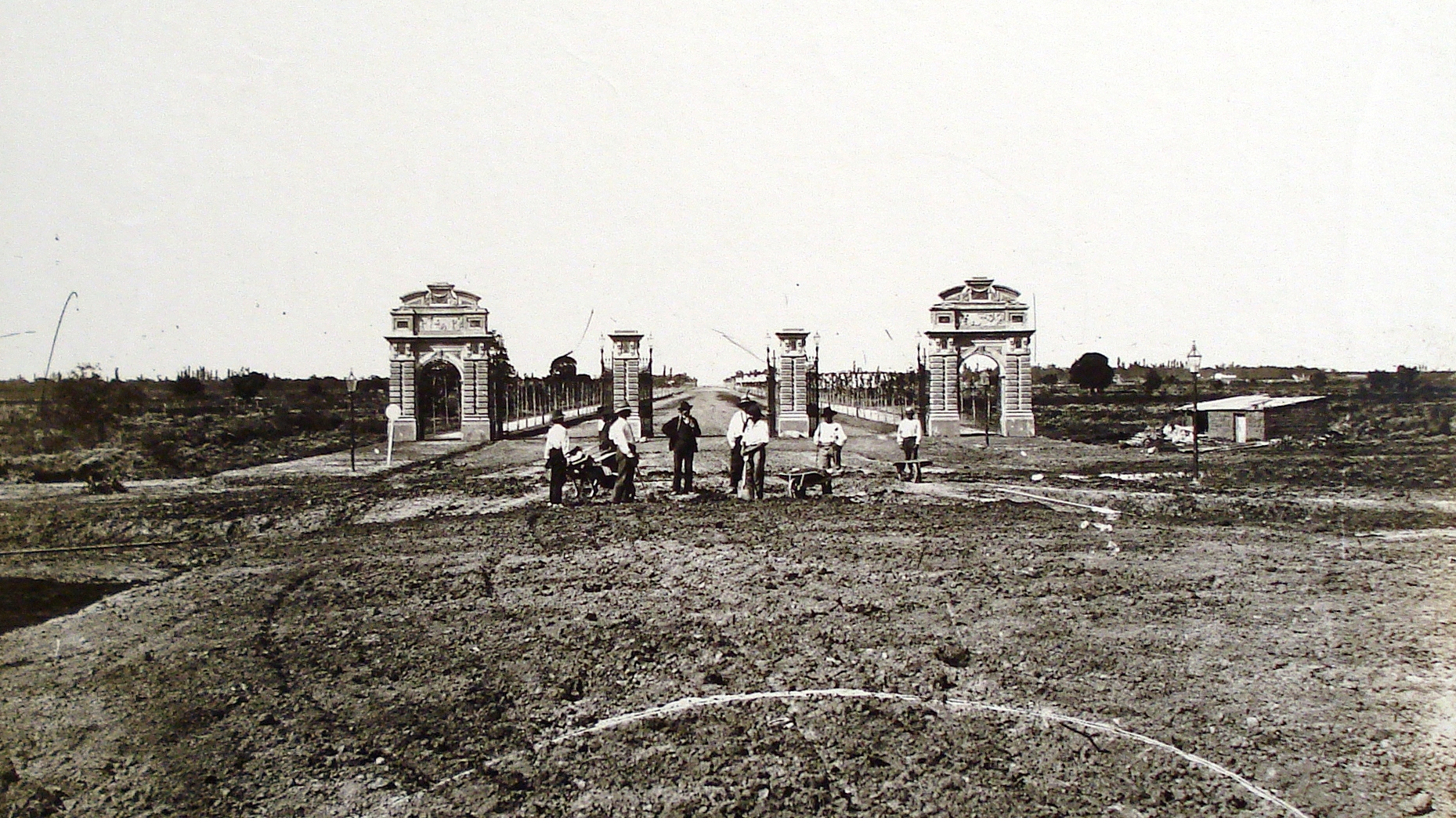 Workers and the "iron gates of Palermo", built to delimite the main entrance to 3 de Febrero Park in Buenos Aires. They had been designed by Arq. Jules Dormal. The gates remained from 1875 to 1917 when they were demolished.